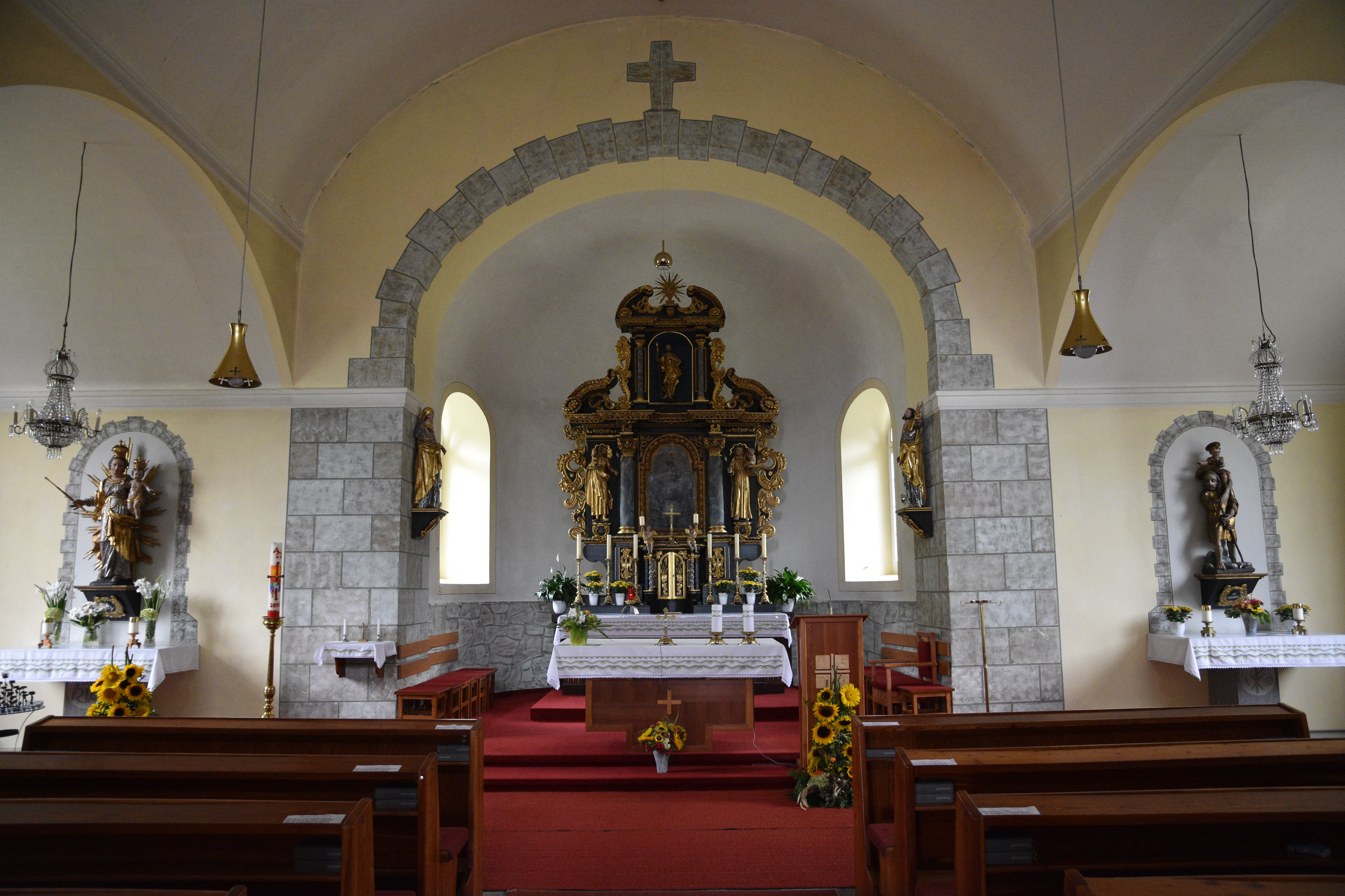 Church Pfarrkirche Kleinlobming Interior